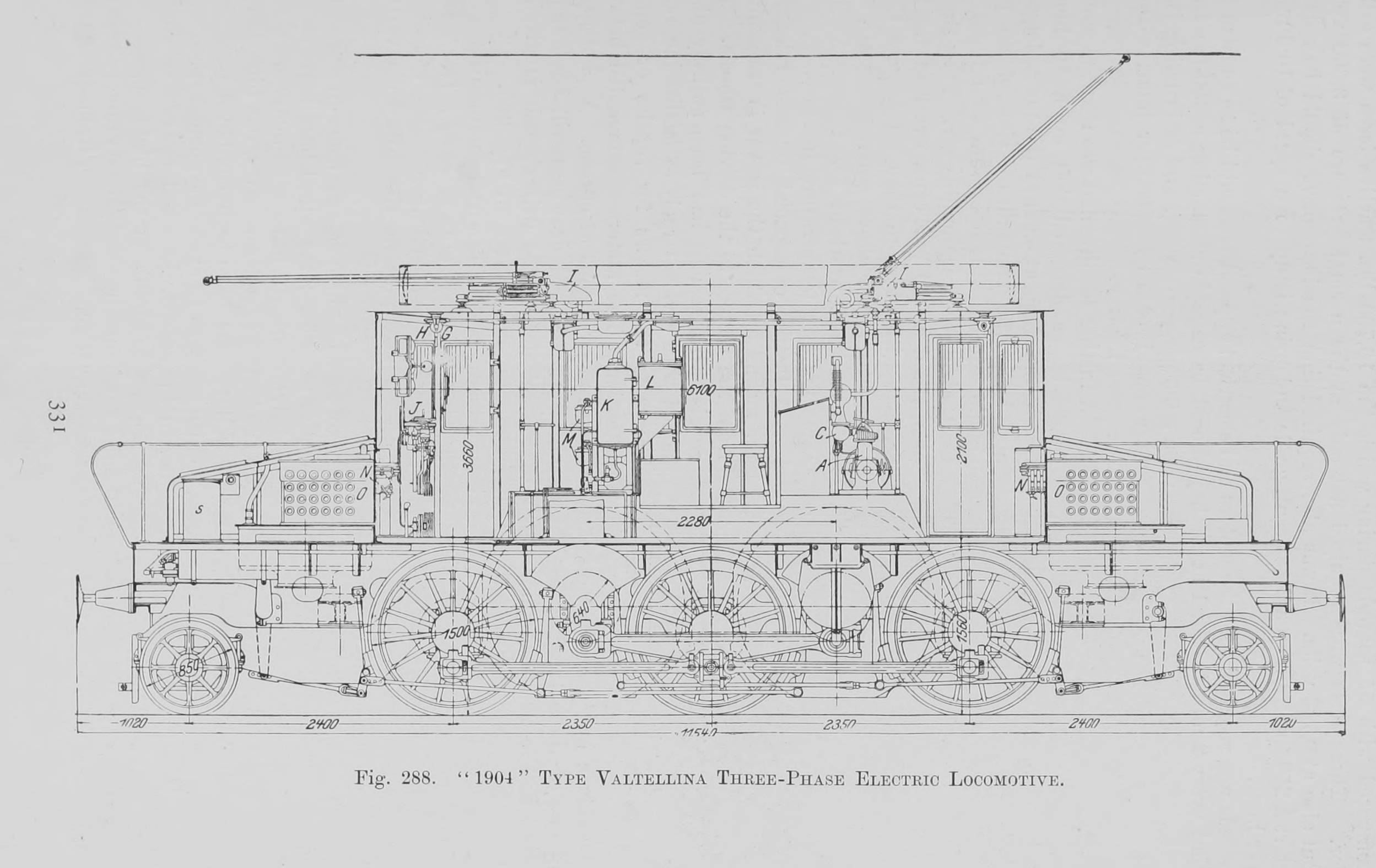 see image title - first number is figure or diagram number. See list of illustrations in source for page number in source - relevent text content is near to image in the source